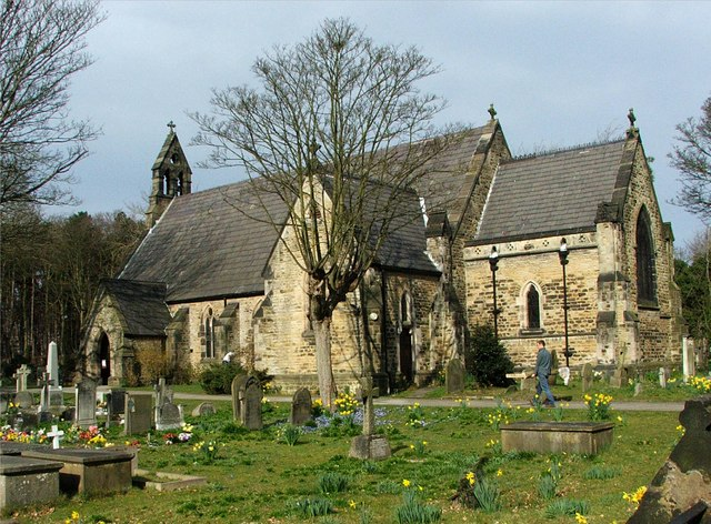 St Luke's Church, Formby I couldn't resist posting this one as it almost identical to a photograph taken from about the same position exactly one week earlier! It was a beautiful late Spring day with plenty of sunshine with a couple of peacock butterflies drifting around the beautiful churchyard.SD280067